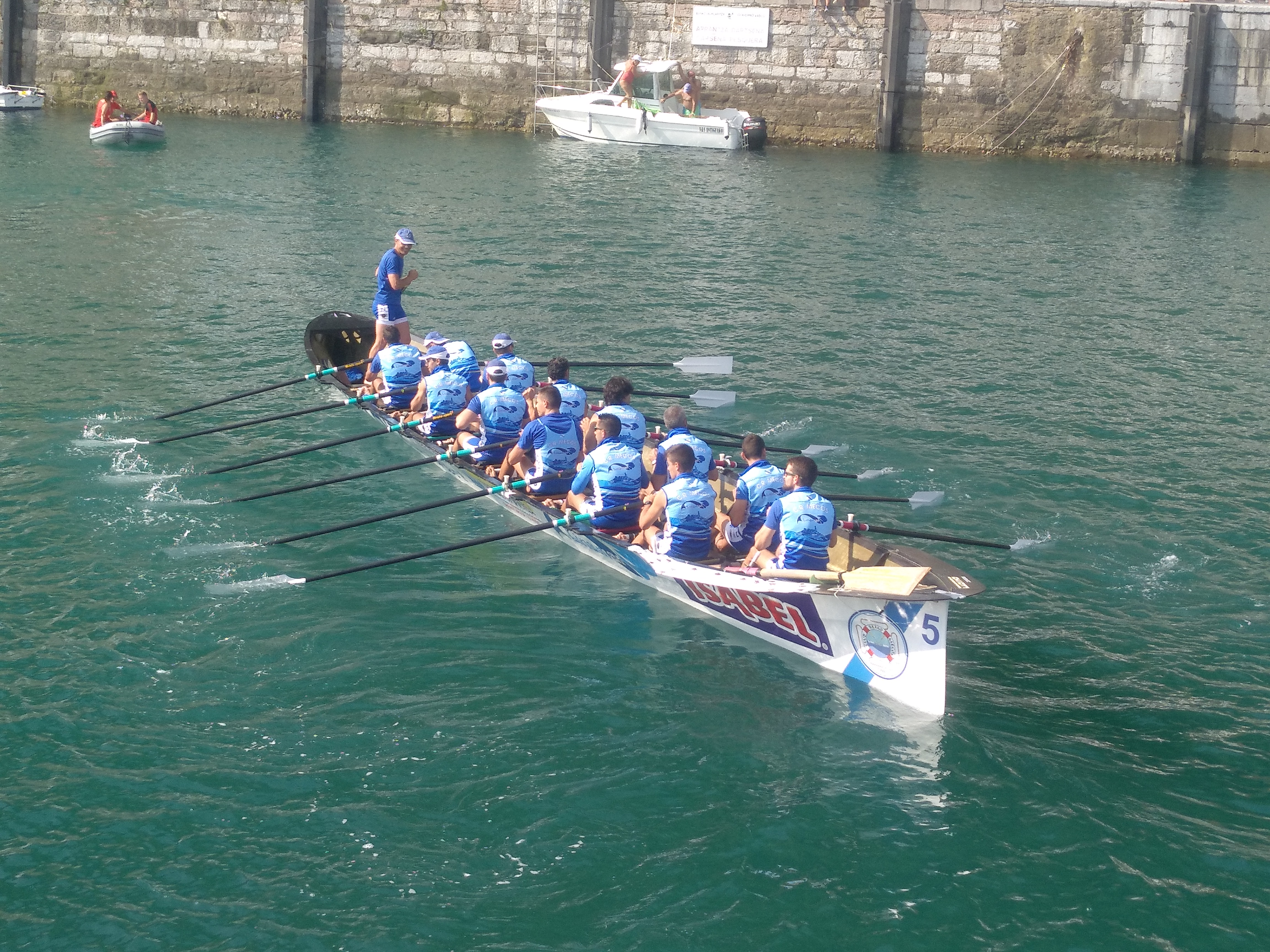 Club de Remo Mecos, Flag of La Concha, 2018